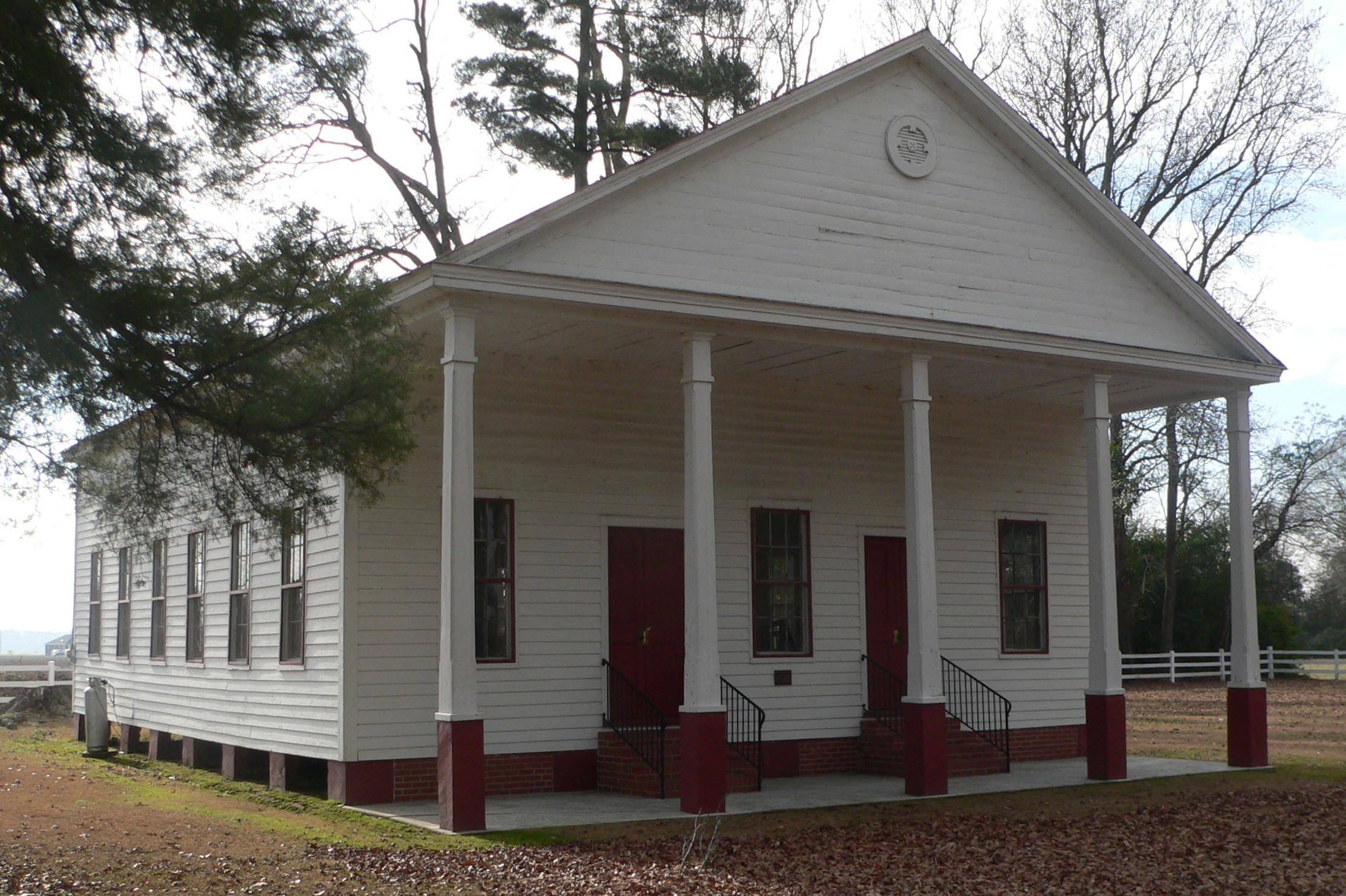 Asbury Methodist Church, located beside U.S. Highway 301 in Raynham, North Carolina; seen from the north.